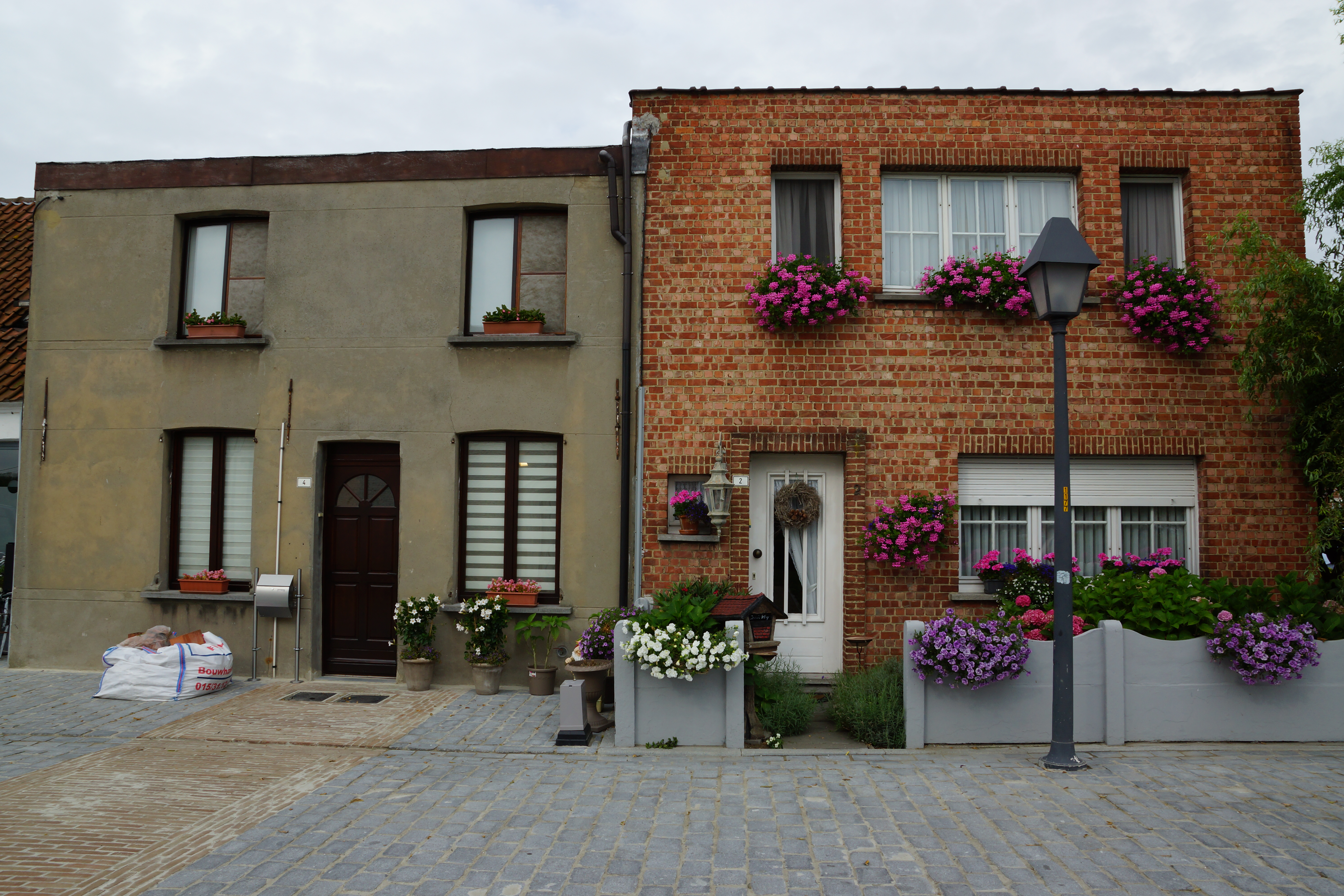 Rumst, Belgium: Houses from the former Leper colony